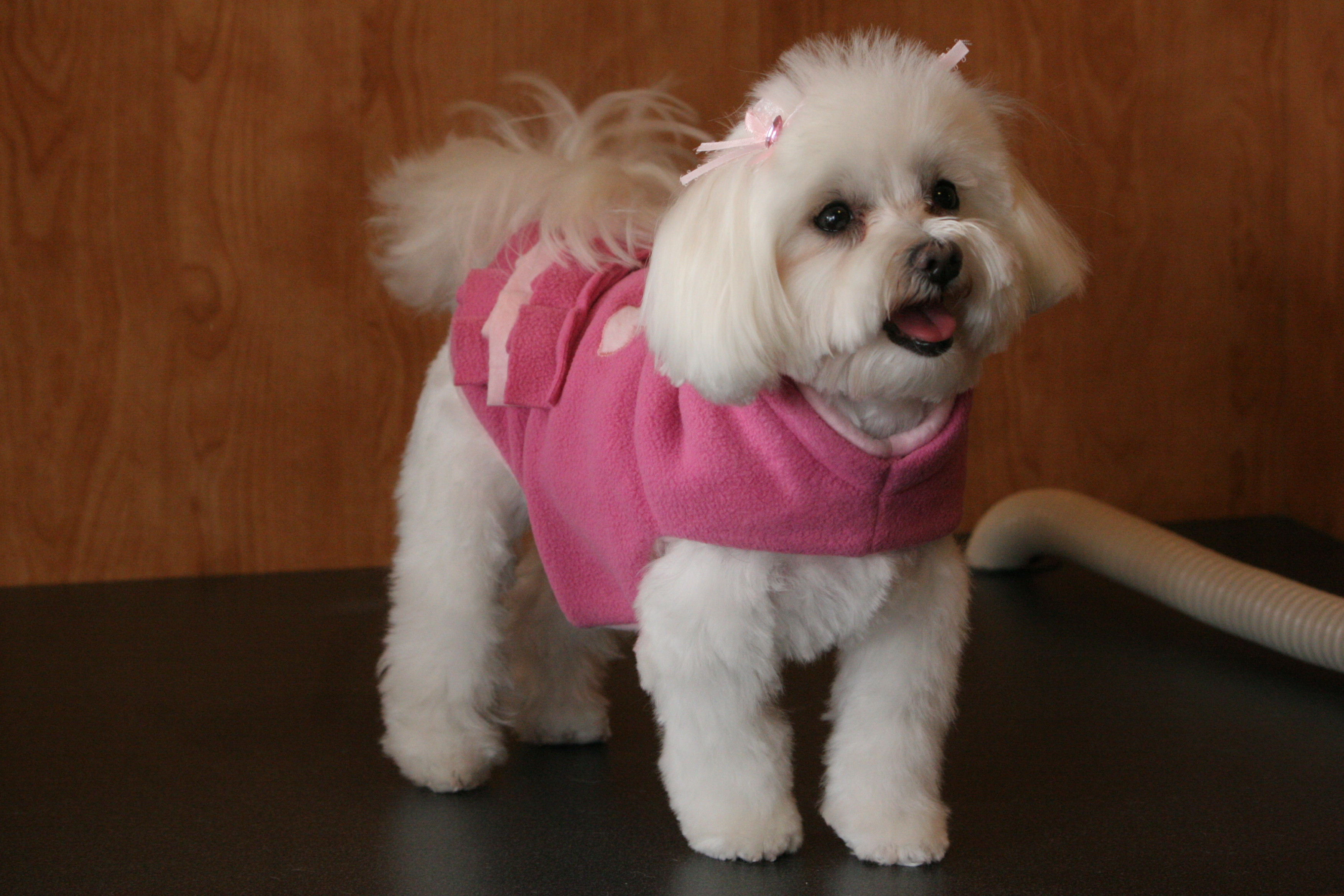 Maltese dog